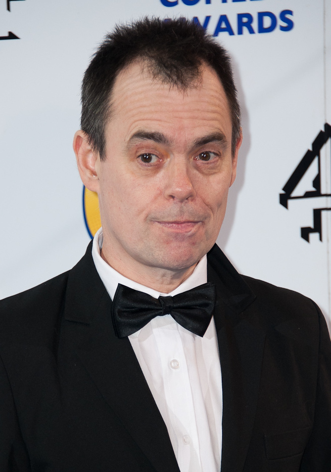 Kevin Eldon at the 2013 British Comedy Awards, 12 December 2013